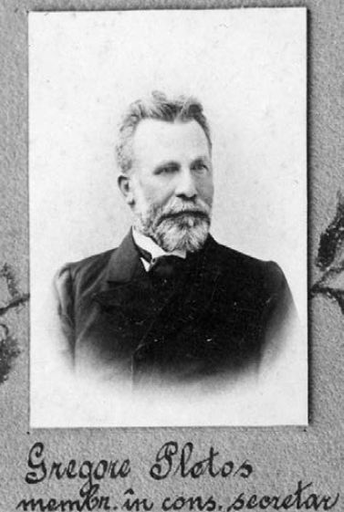 Portrait of the Romanian politician Grigore Pletosu, deputy in the Great National Assembly from Alba Iulia, on behalf of the Eastern Orthodox Christian Deanery of Bistrița - Romania, 1918Română: Portretul lui Grigore Pletosu, deputat în Marea Adunare Națională de la Alba Iulia, din partea Protopopiatului ortodox Bistrița, 1918